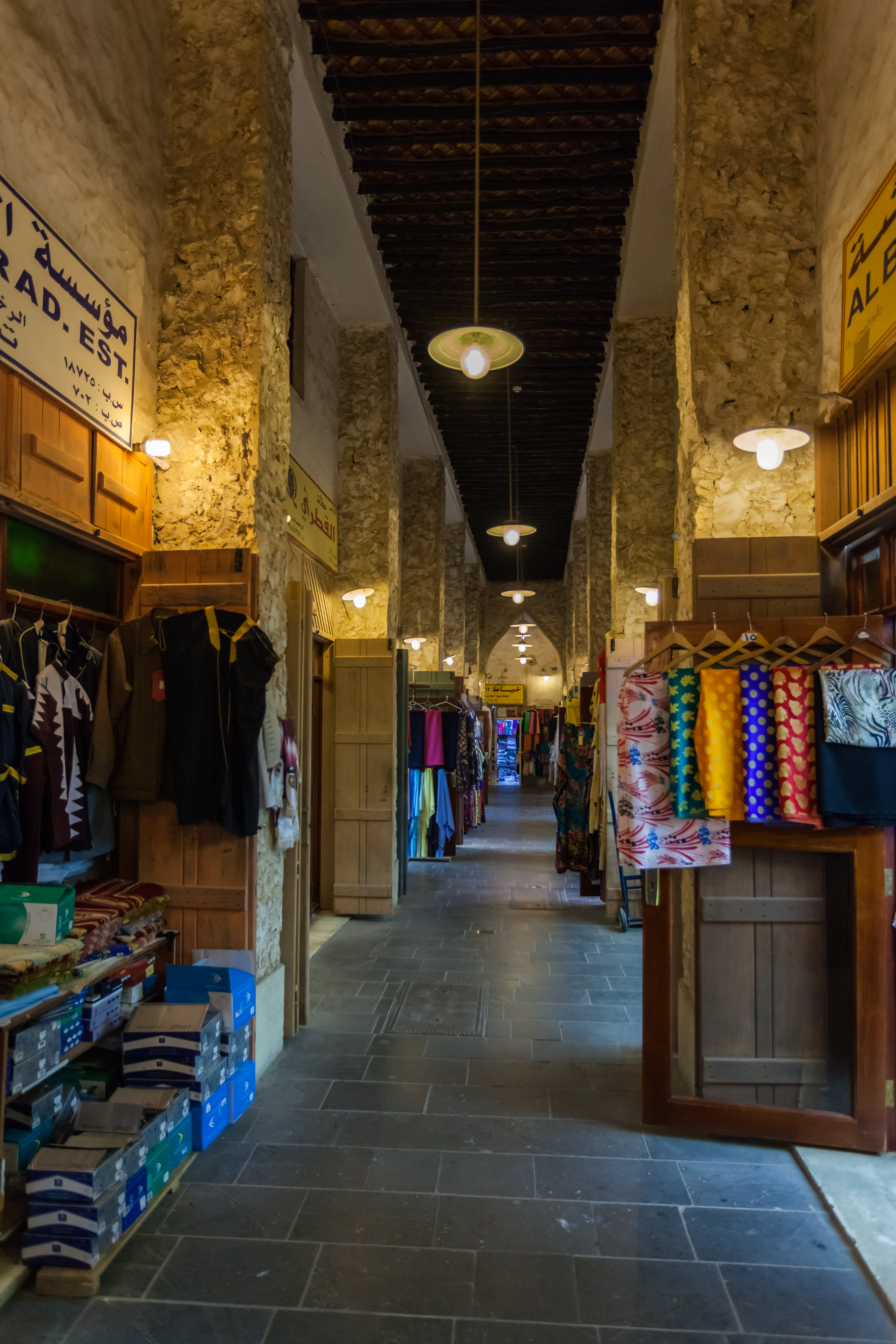 Souq Waqif, Doha, Qatar